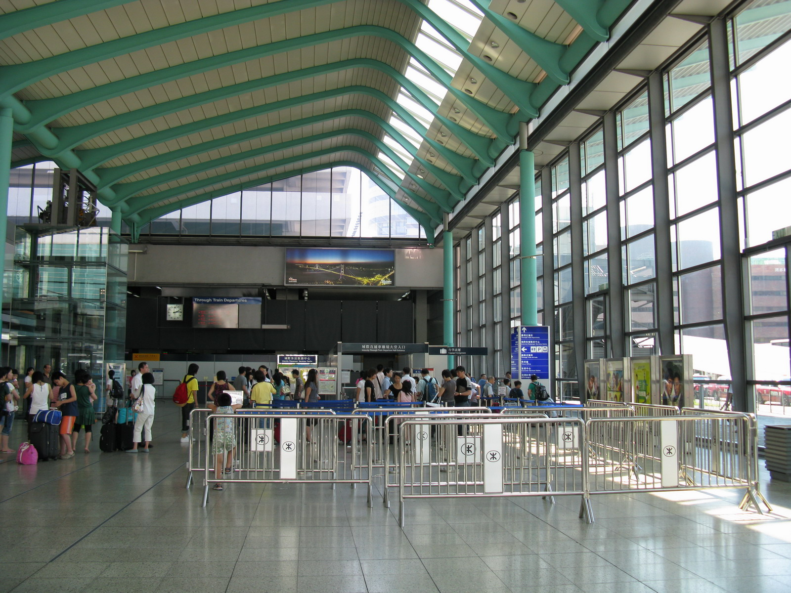 Through Train Concourse of Hung Hom Station